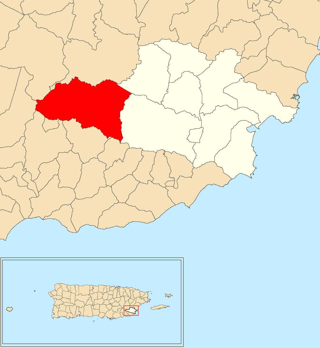 Guayabota, Yabucoa, Puerto Rico locator map